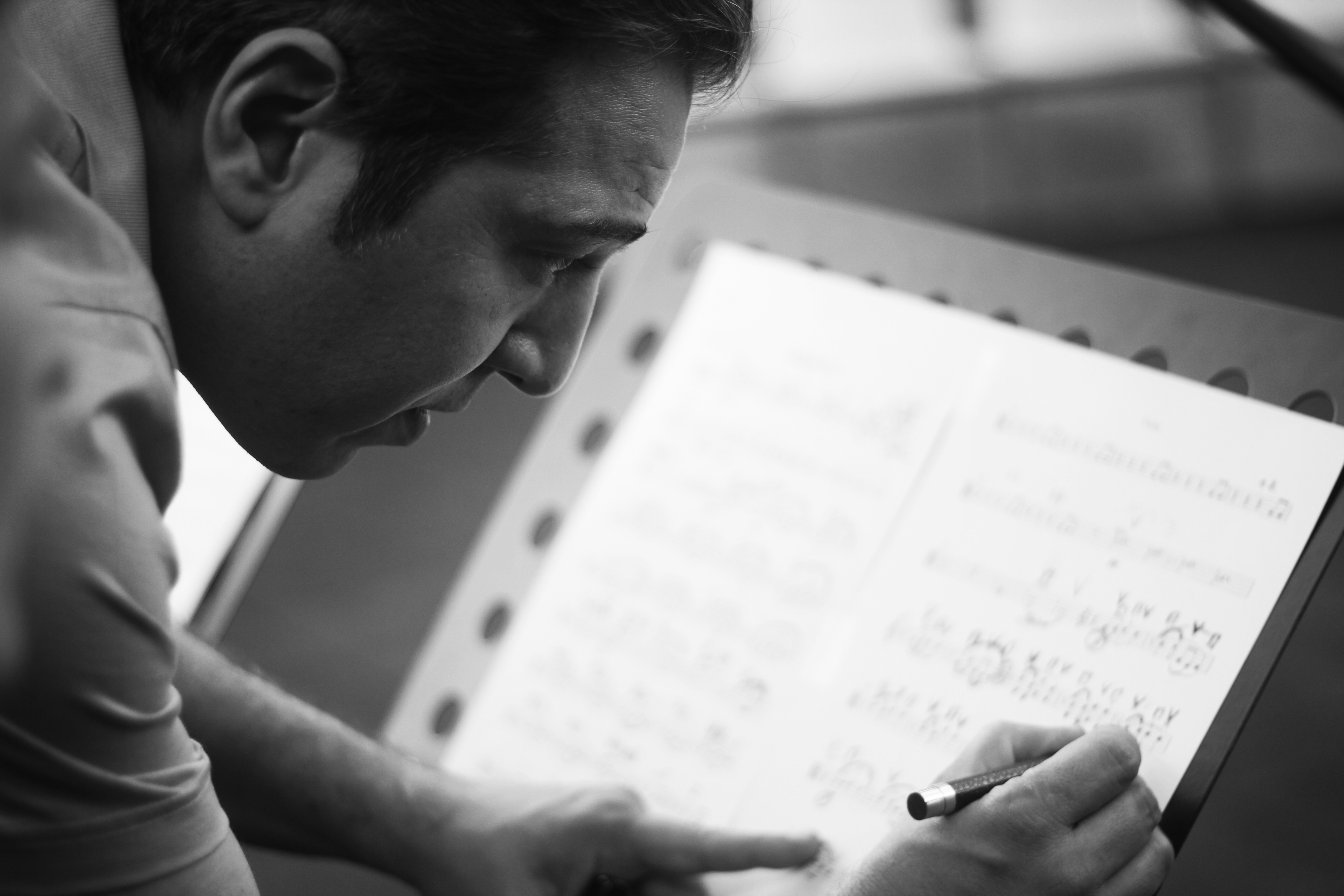 Photo of Fazıl Say during rehearsals with the orchestra and taking some notes on the notation.